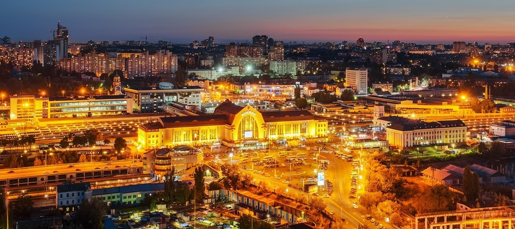 Panoramic view of the area of Kiev railway station by night